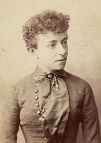 A.S.C. Wallis, a.k.a. Adèle Opzoomer, by Albert Greiner.